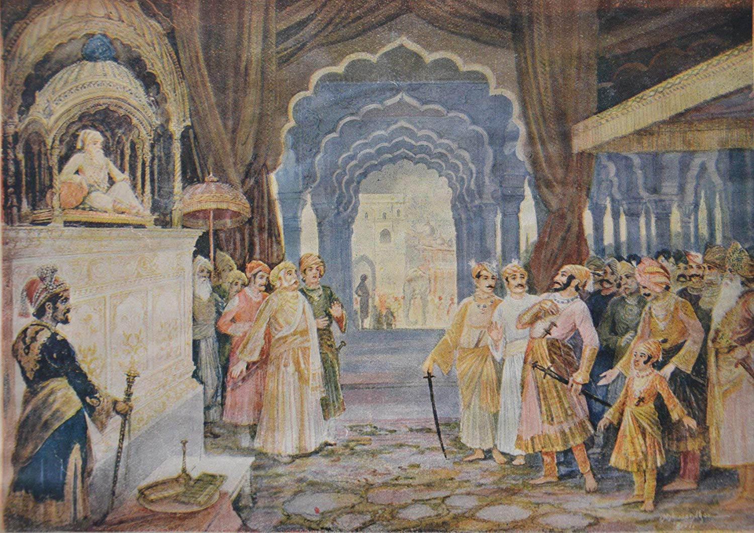 Tallenge - Raja Shivaji at Aurangzeb's Darbar- M V Dhurandhar - Small Digital Print(Paper,8 x 12 inches, Multicolour) by Tallenge